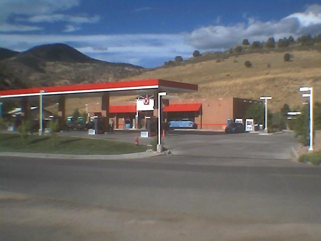 Conoco-Circle K in Morrison, Colorado.